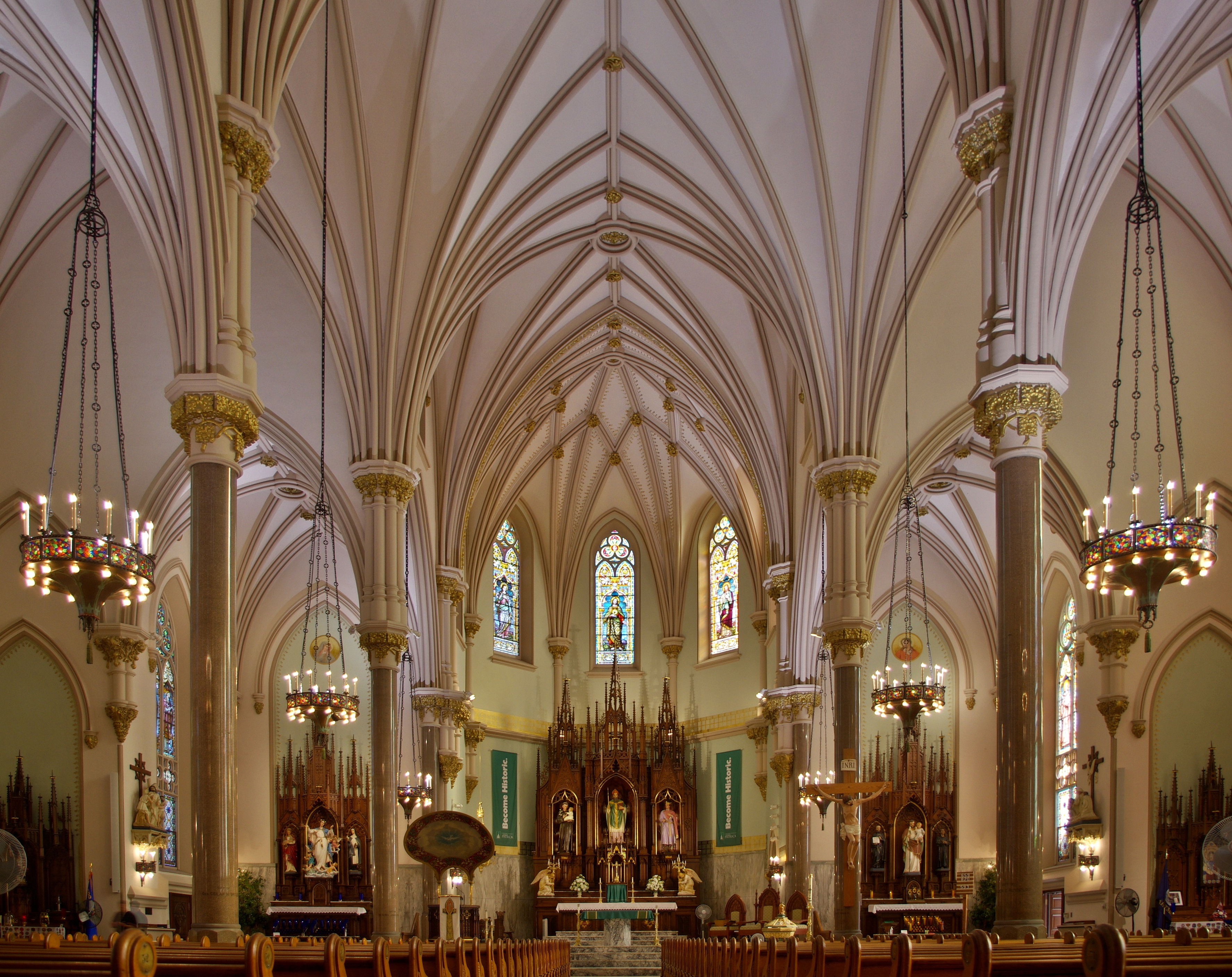 Historic Church of Saint Patrick (Toledo, OH) - nave